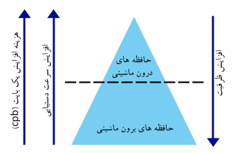 Outer-machine Memory & inner-machine Memory